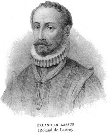 Orlande de Lassus (1532 - 1594). Other versions of the name: Orlandus Lassus, Orlando di Lasso, Roland de Lassus, Roland Delattre. Walon: Roland d' Lassus.